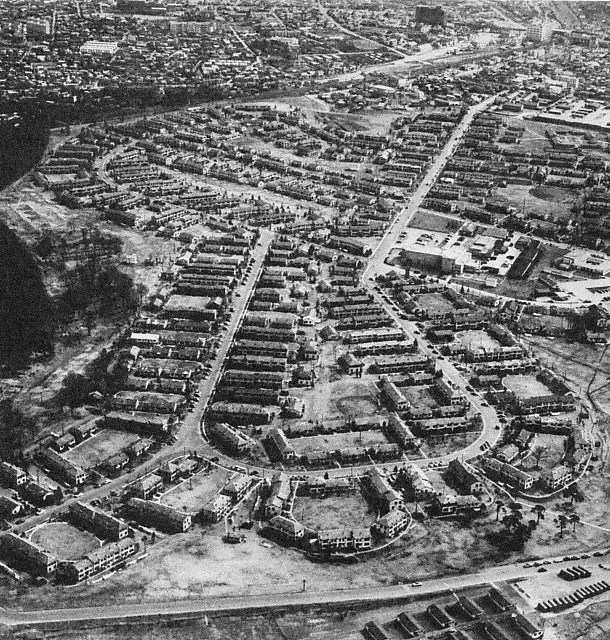 Aeral view of Washington Heights (Tokyo)